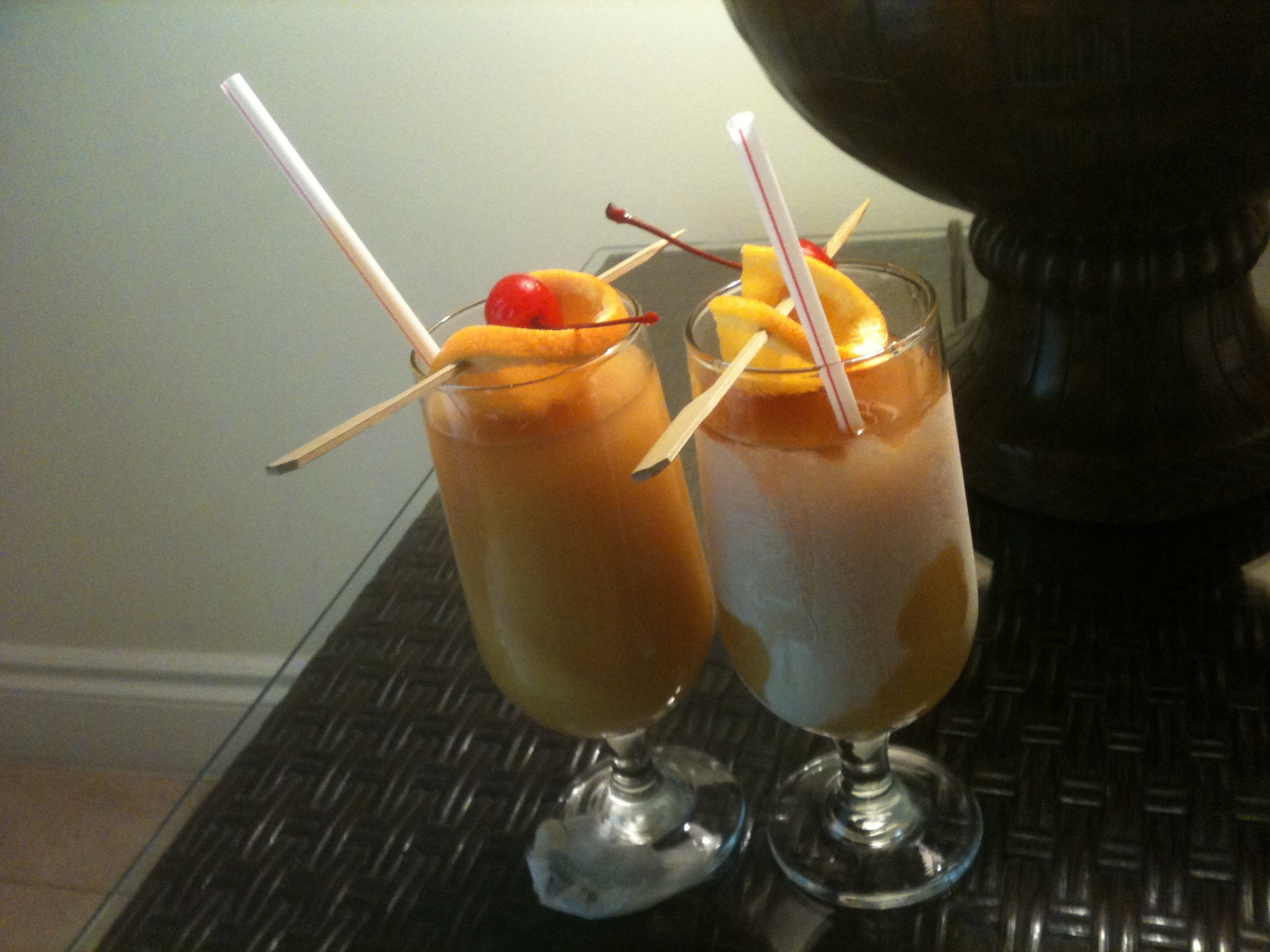 Goombay Smash upon arrival